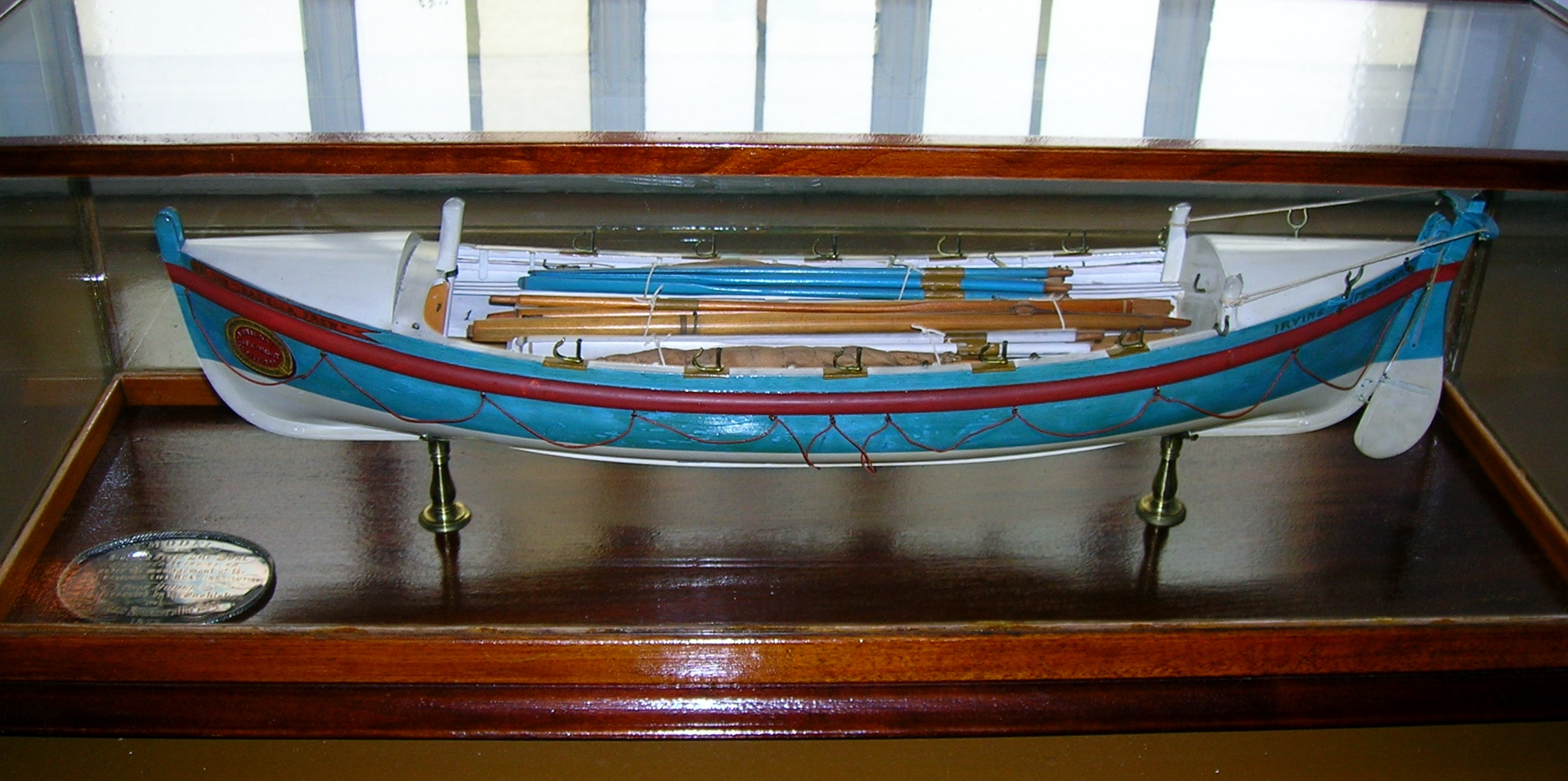 A model of Irvine's first lifeboat, Irvine Old Parish Church, North Ayrshire, Scotland.